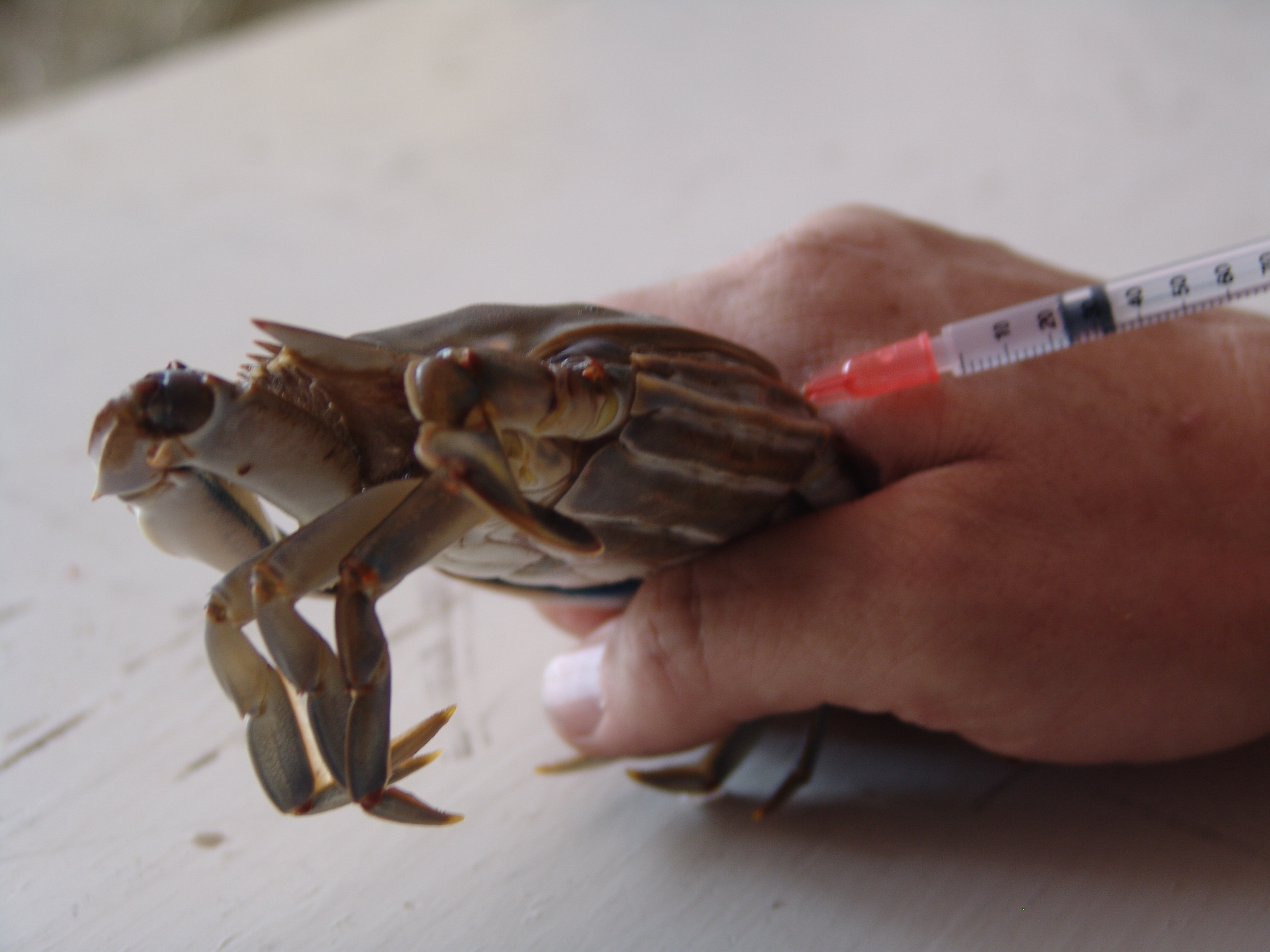 A male crab is anesthetized for research